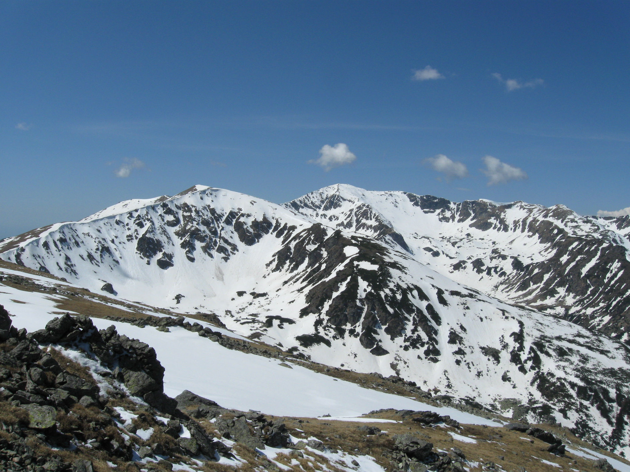 View of the Parang mountains from the slopes of the Gauri peak. The two proeminent peaks in this image are: Lesu(2375m) on the left and Parangu Mare(2519m) in the center.